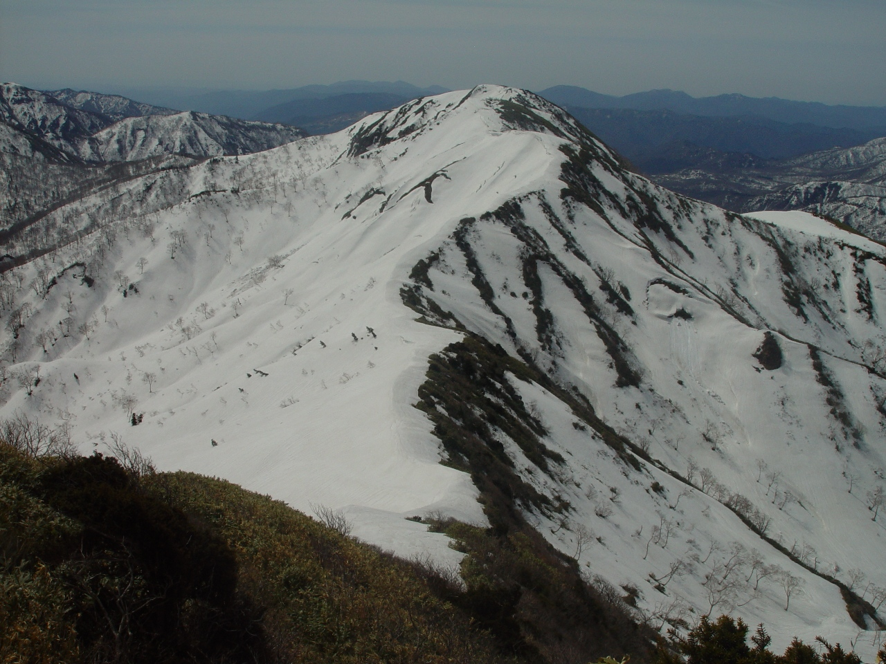 Mount_Choshi_from_Mount_Ichinomie